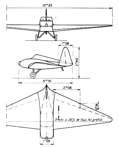 Fauvel AV.10 3-view drawing from L'Aerophile April 1935